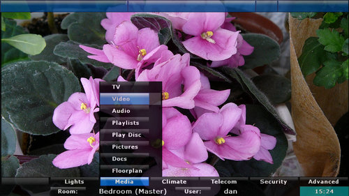 LinuxMCE Main Menu Screenshot (UI2) (GPL licensed software and wiki). Original location: on